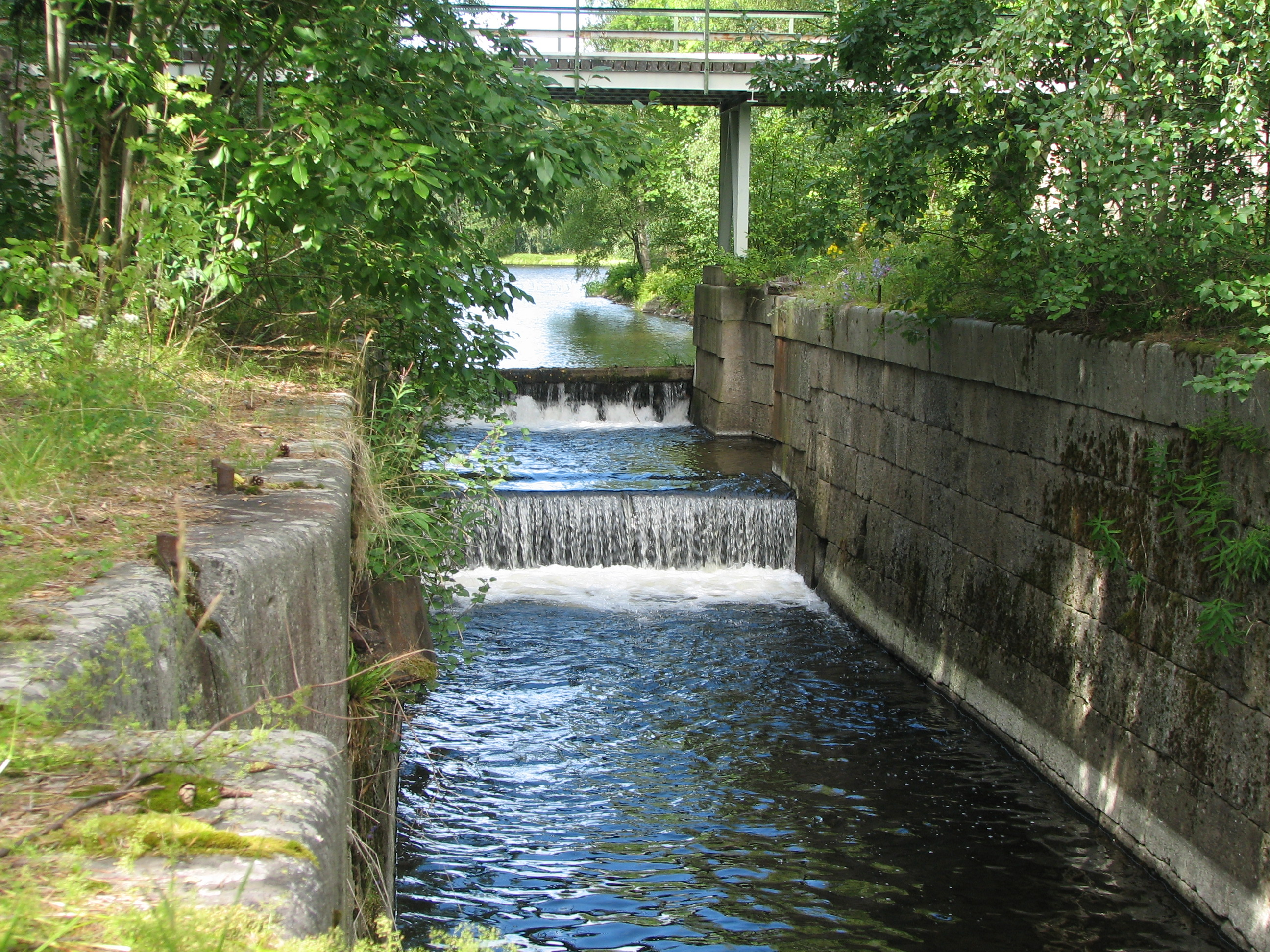 Tamm's canal lock-chamber at Hamre, Hälsingland, Sweden